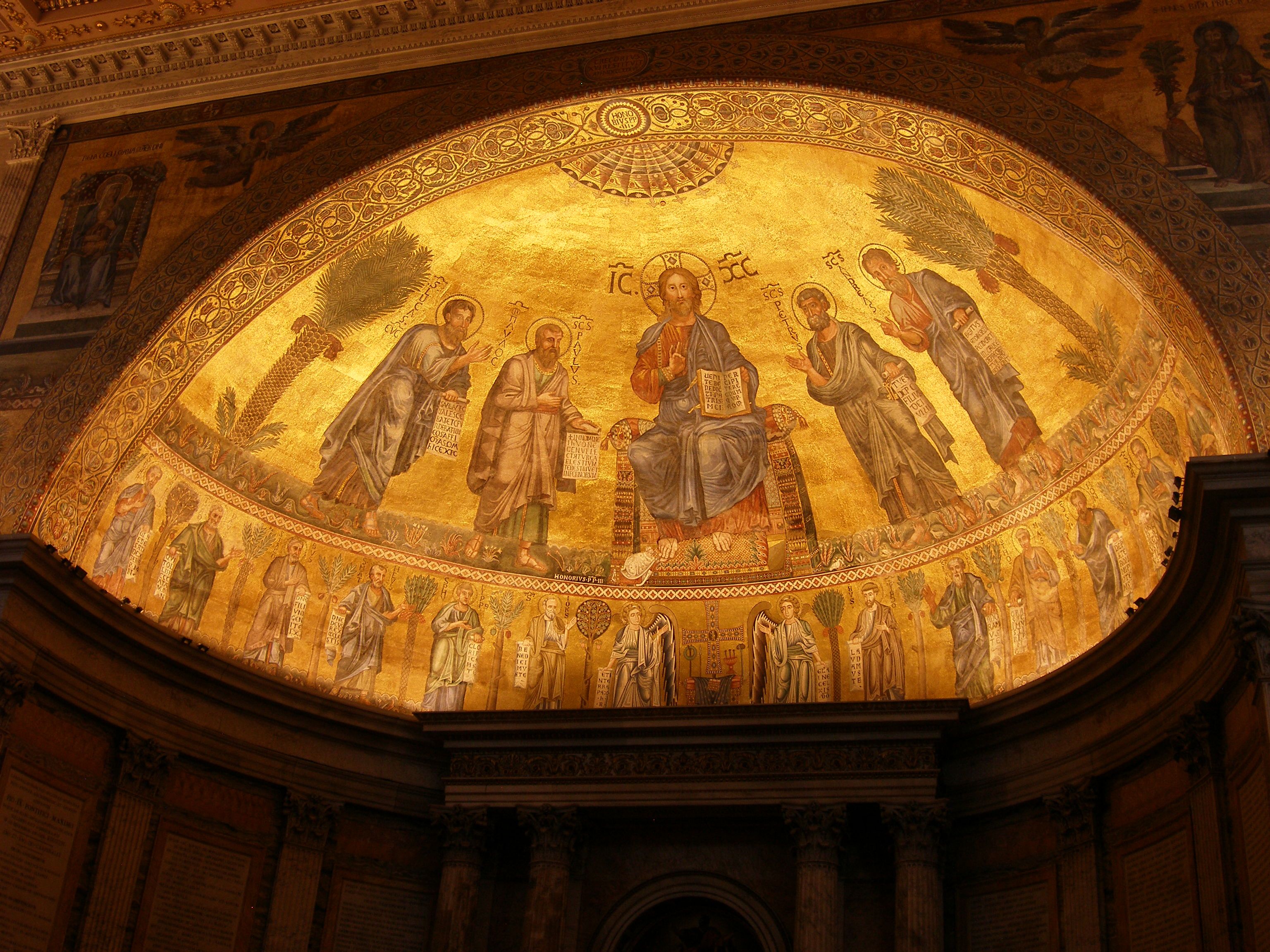 Rom, Interior of Basilica of Saint Paul Outside the Walls